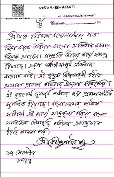 Rabindranath Tagore's handwriting, describing the work of Haricharan Bandopadhyay. It was written in 17th September, 1914.